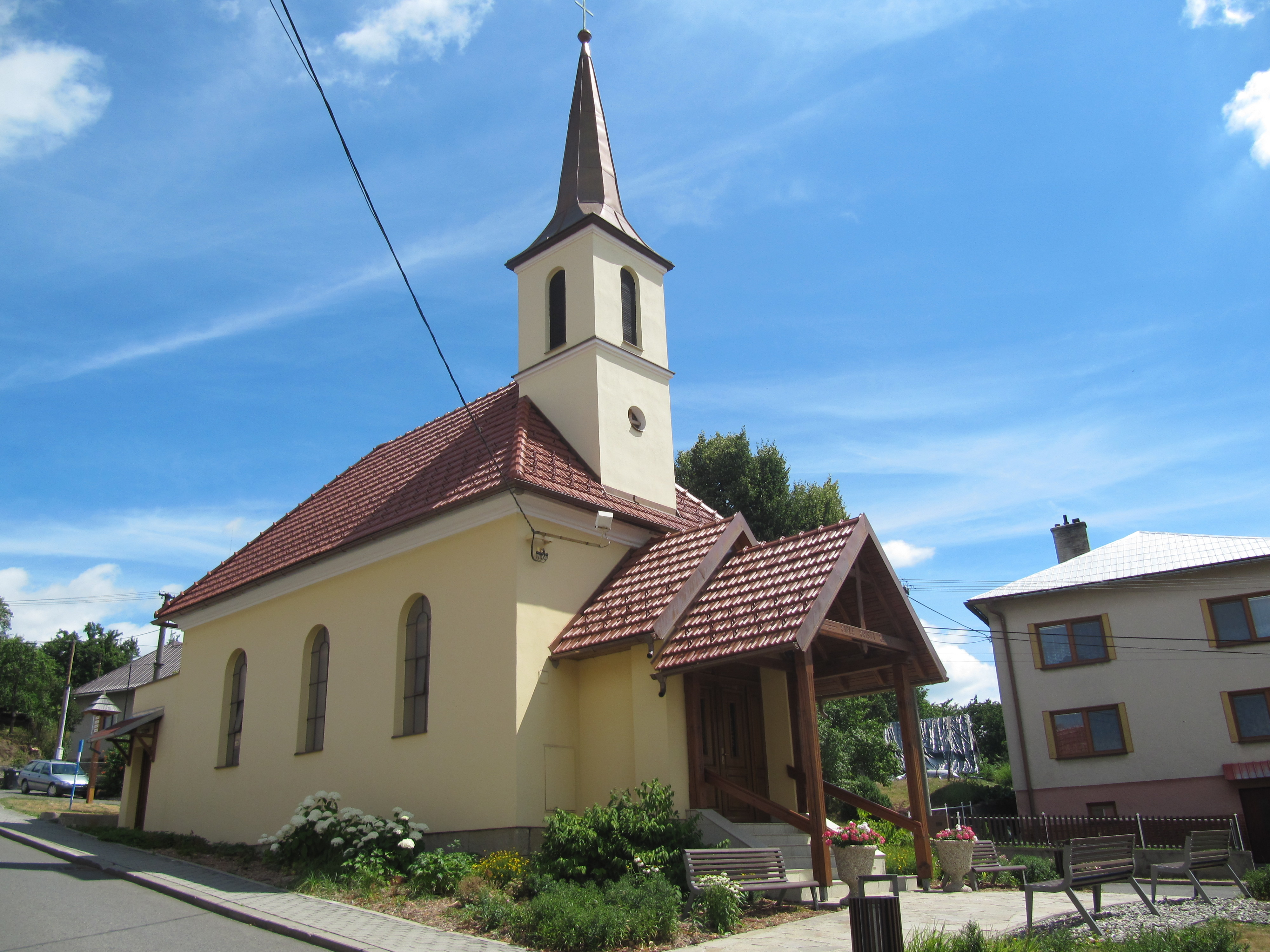 Tichov, Zlín District, Czech Republic.